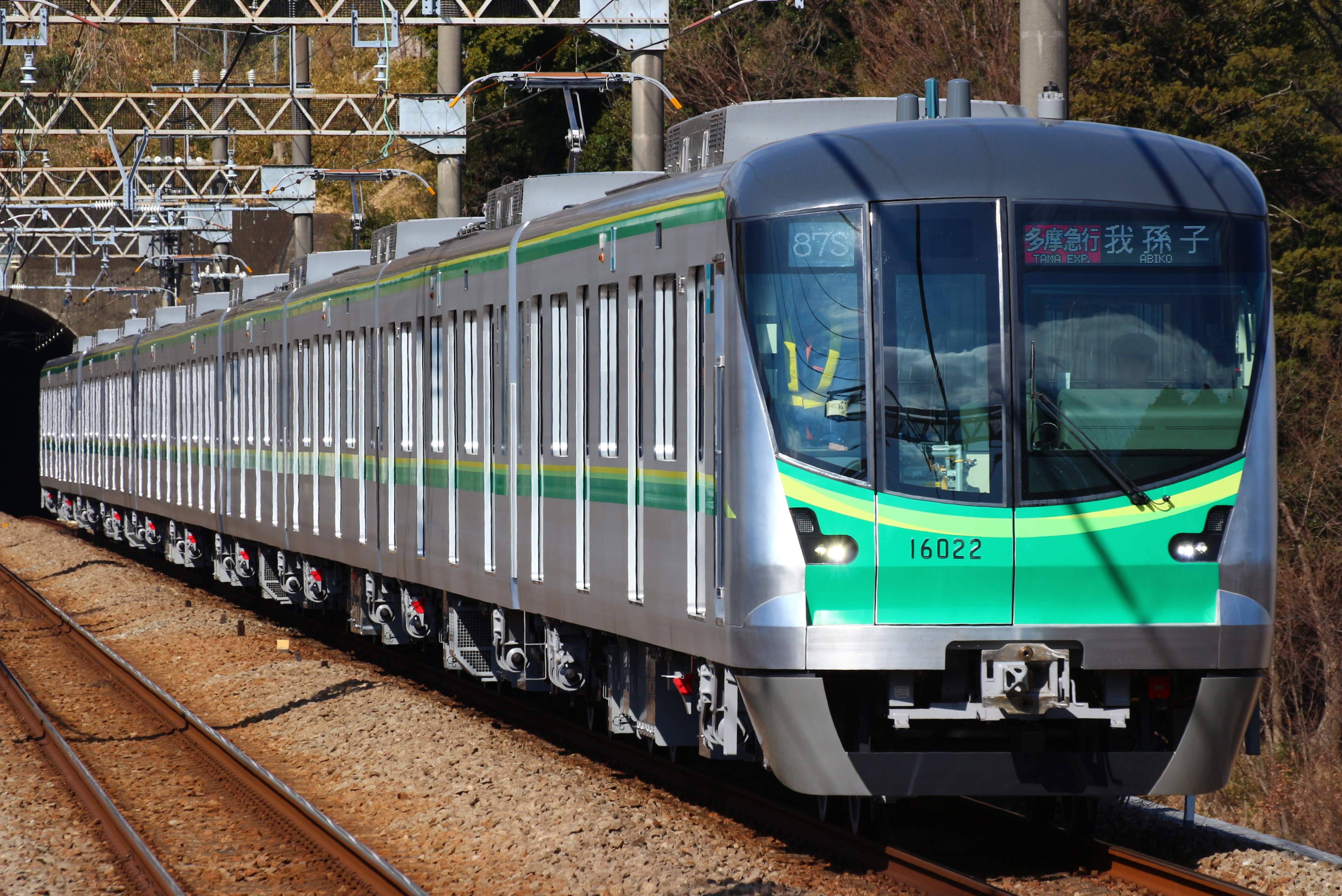 Tokyo Metro 16000 series EMU set 16122 approaching Haruhino Station on the Odakyu Tama Line in Kanagawa Prefecture, Japan